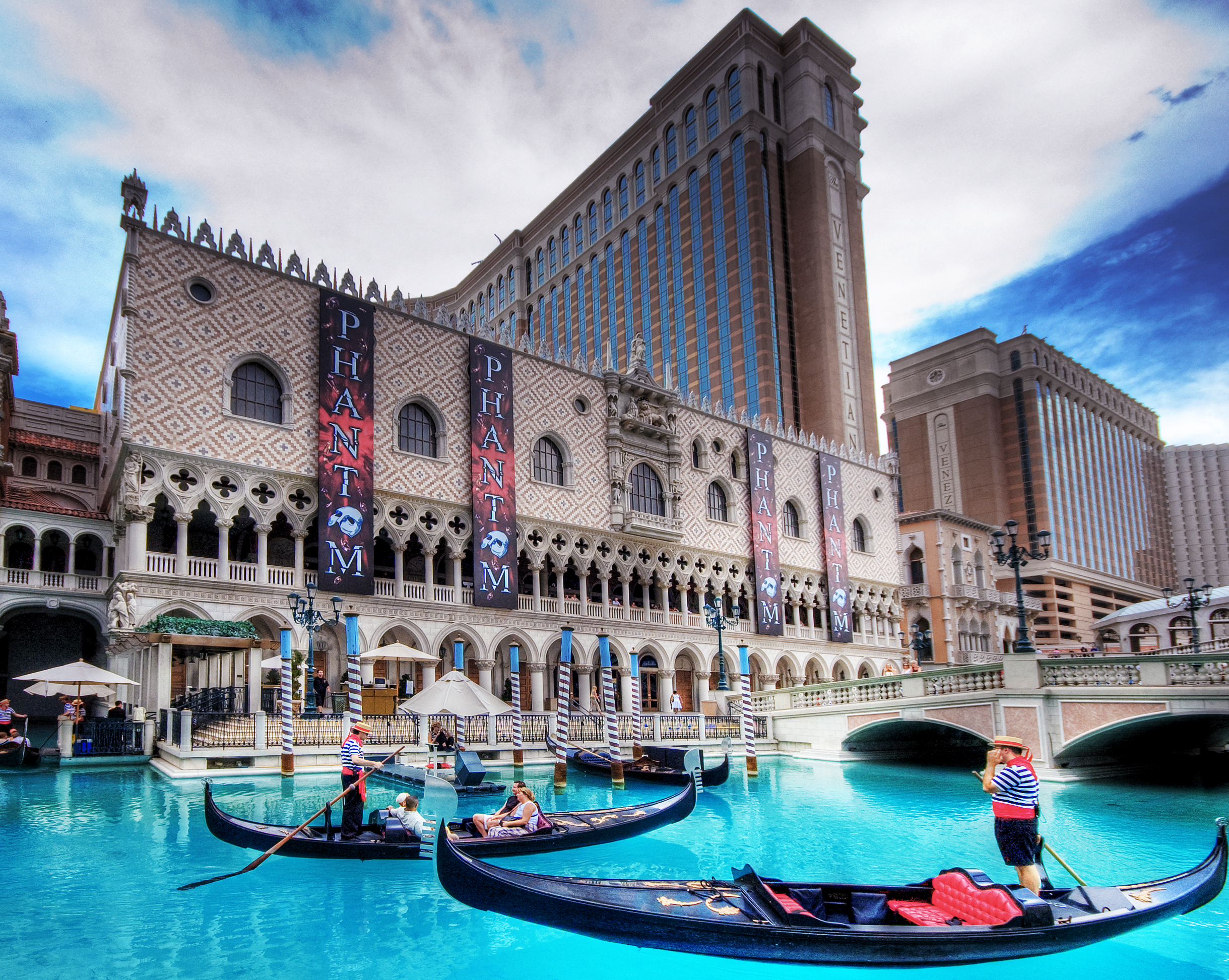 Canals at the Venetian Resort Hotel Casino, a Venice-themed hotel and casino located on the famed Las Vegas Strip in Las Vegas, Nevada, on the site of the old Sands Hotel. The Venetian is owned and operated by the Las Vegas Sands Corporation.